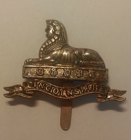 Photo of Lincolnshire Regiment Cap Badge from personal collection